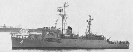 Philippine Navy frigate RPS Rajah Lakandula (PF-4) at Manila Bay